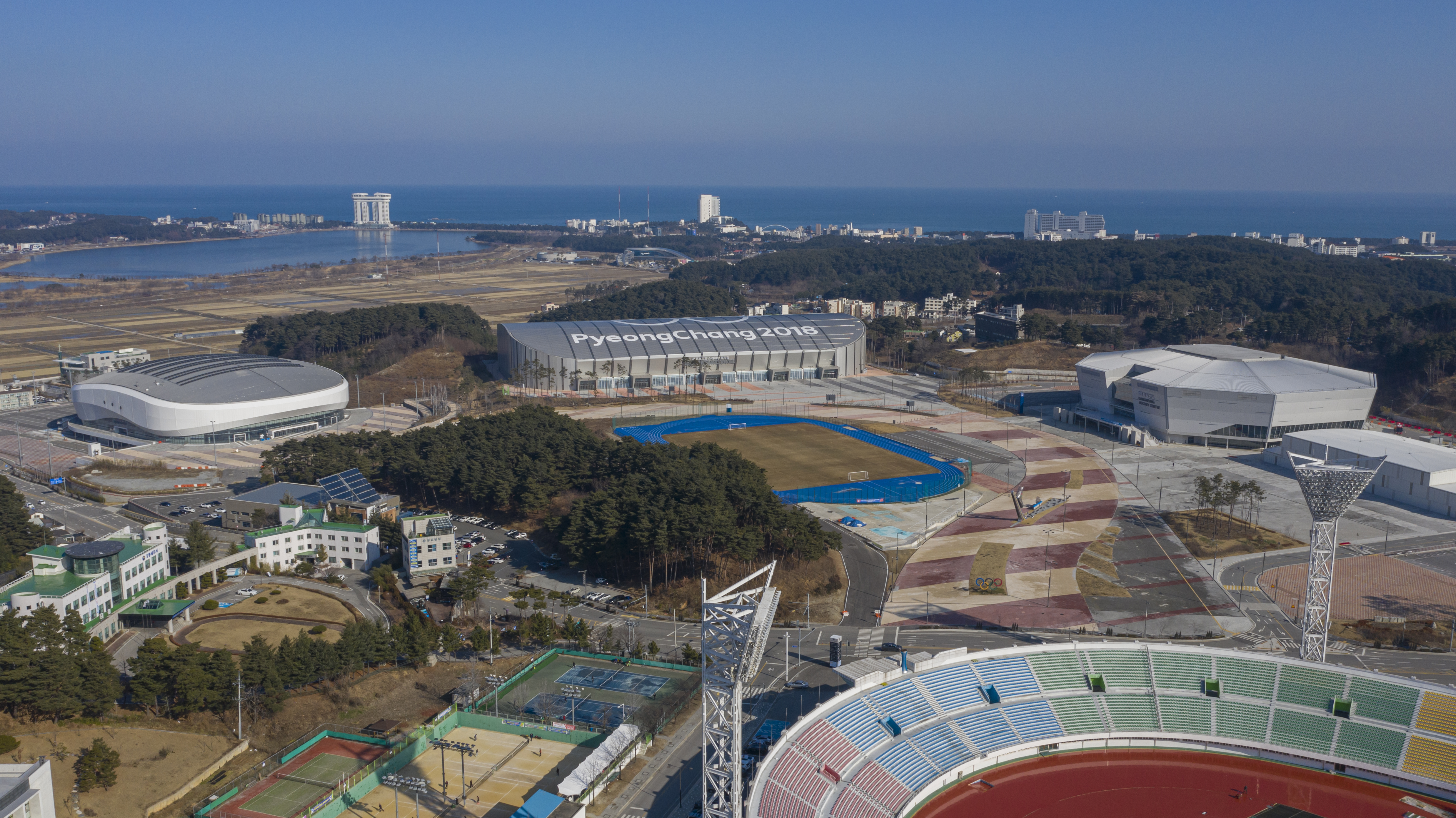 Aerial view of Gangneung Olympic Park, South Korea